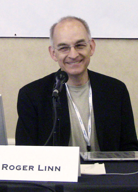 Roger Linn at the SF MusicTech Summit, May 17, 2010